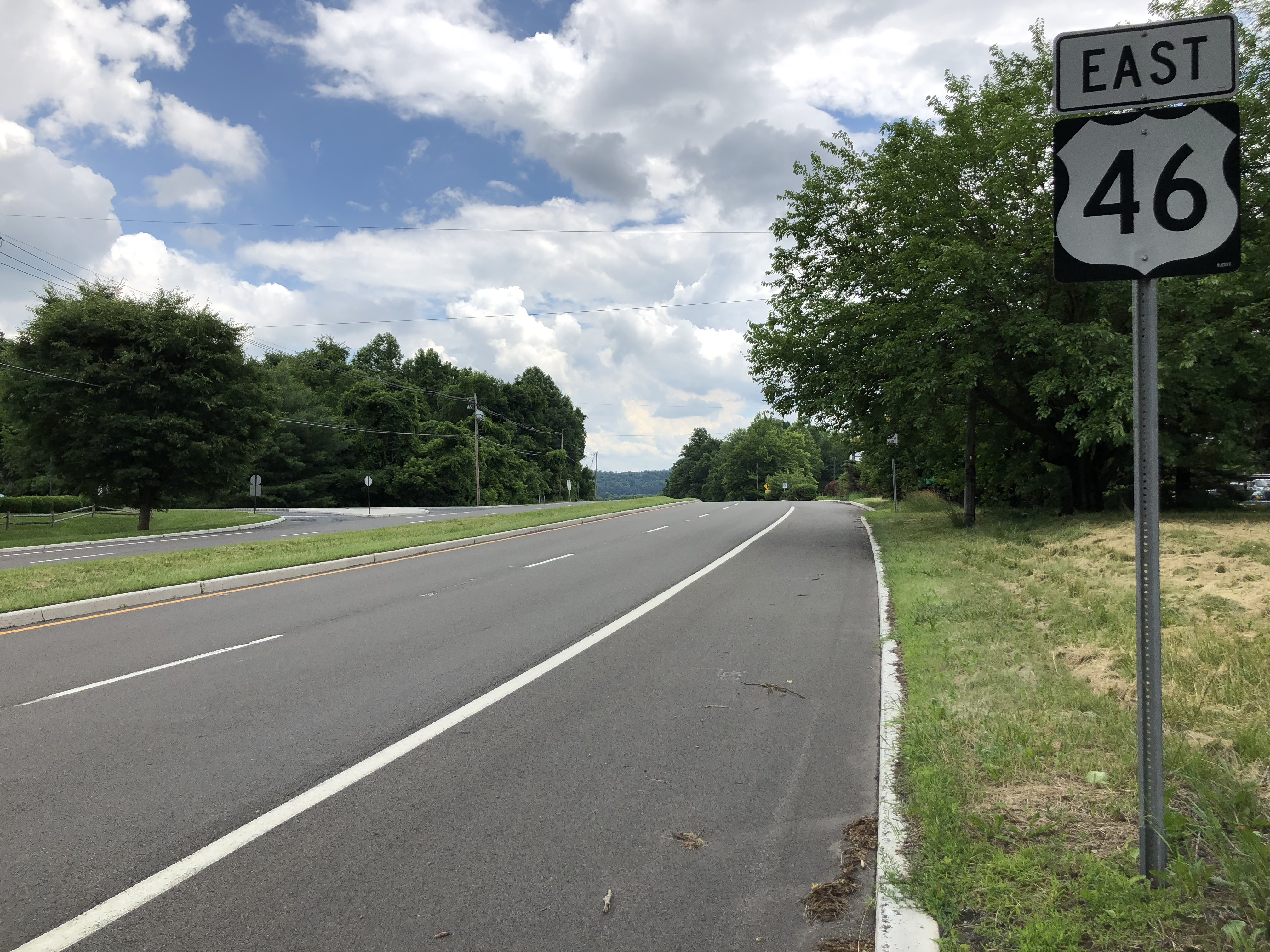 View east along U.S. Route 46 just east of Manunkachunk Road and Upper Sarepta Road in White Township, Warren County, New Jersey